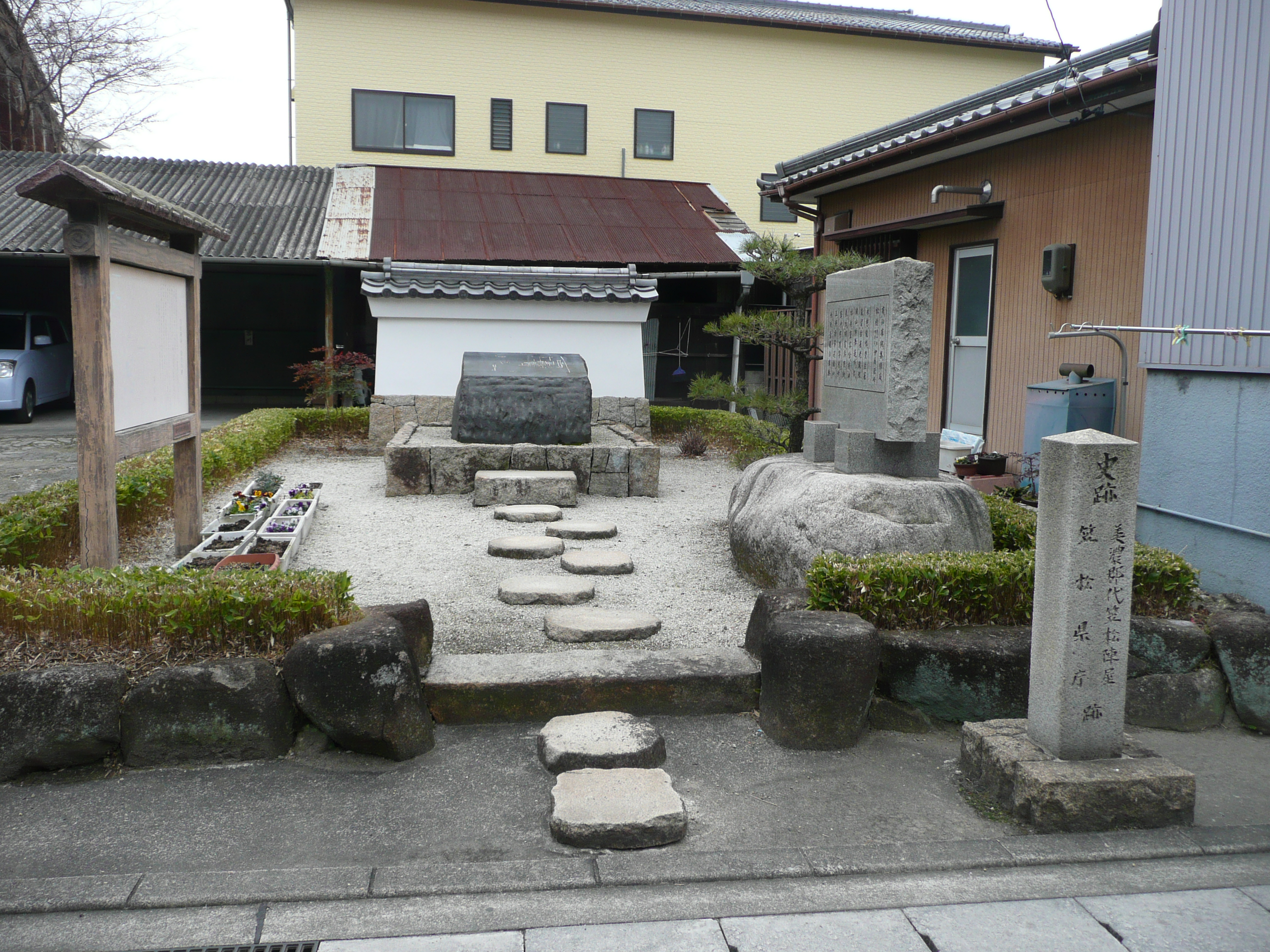 笠松陣屋の石碑